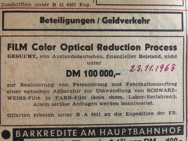 Film Color Optical Reduction Process